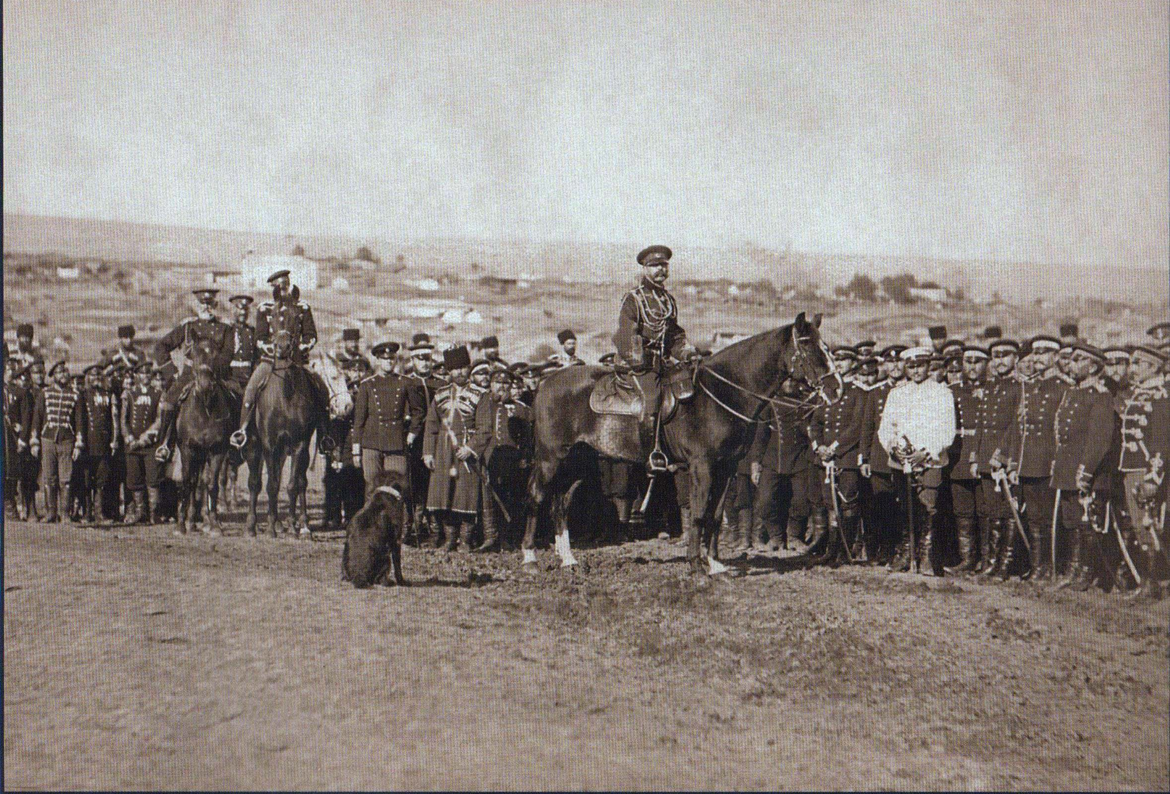 His Majesty Emperor Alexander II with his guards during the siege of Plevna.